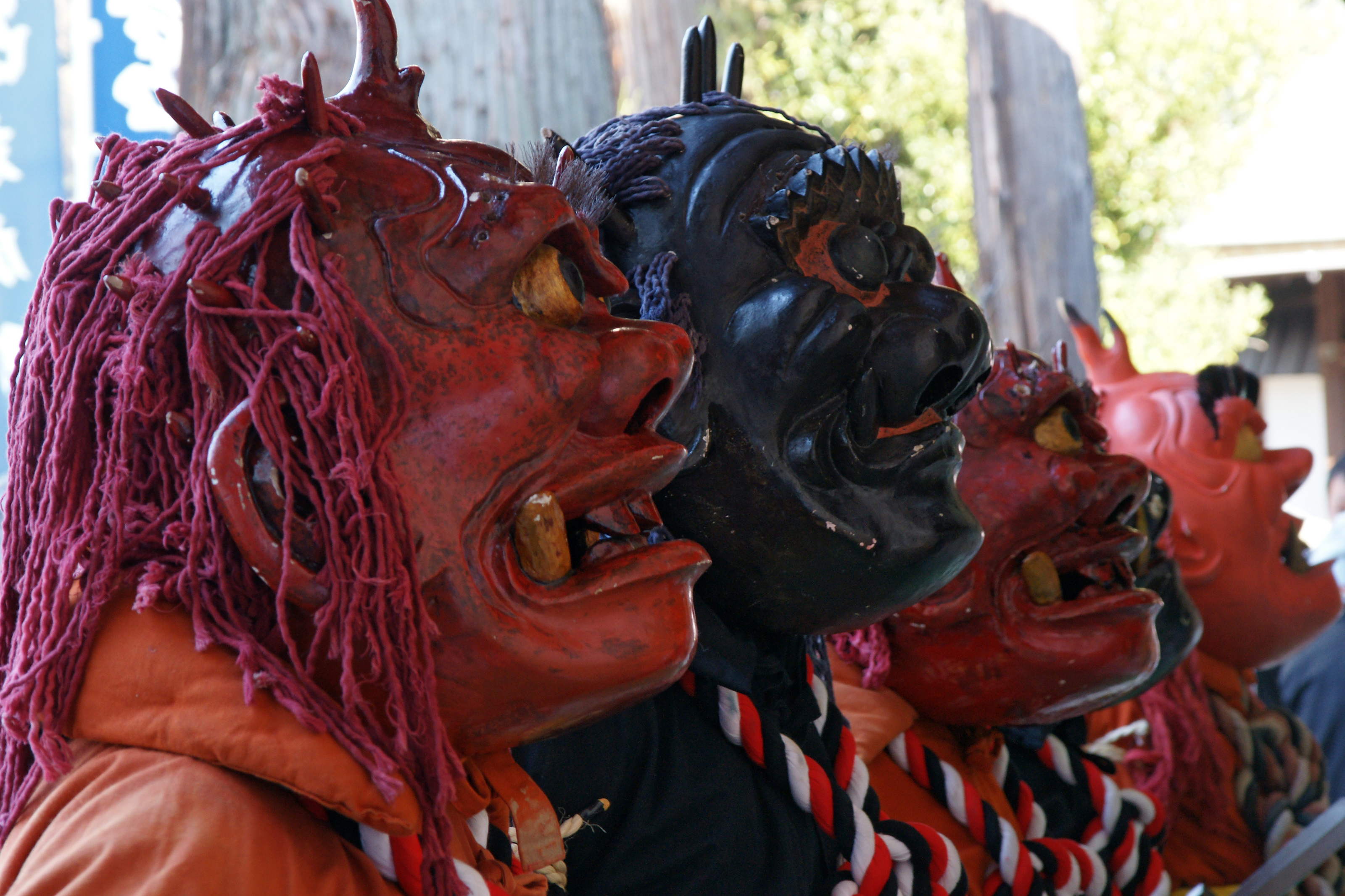 Oni-oi Shiki in Omiya-Hachimangu, Miki, Hyogo prefecture, Japan